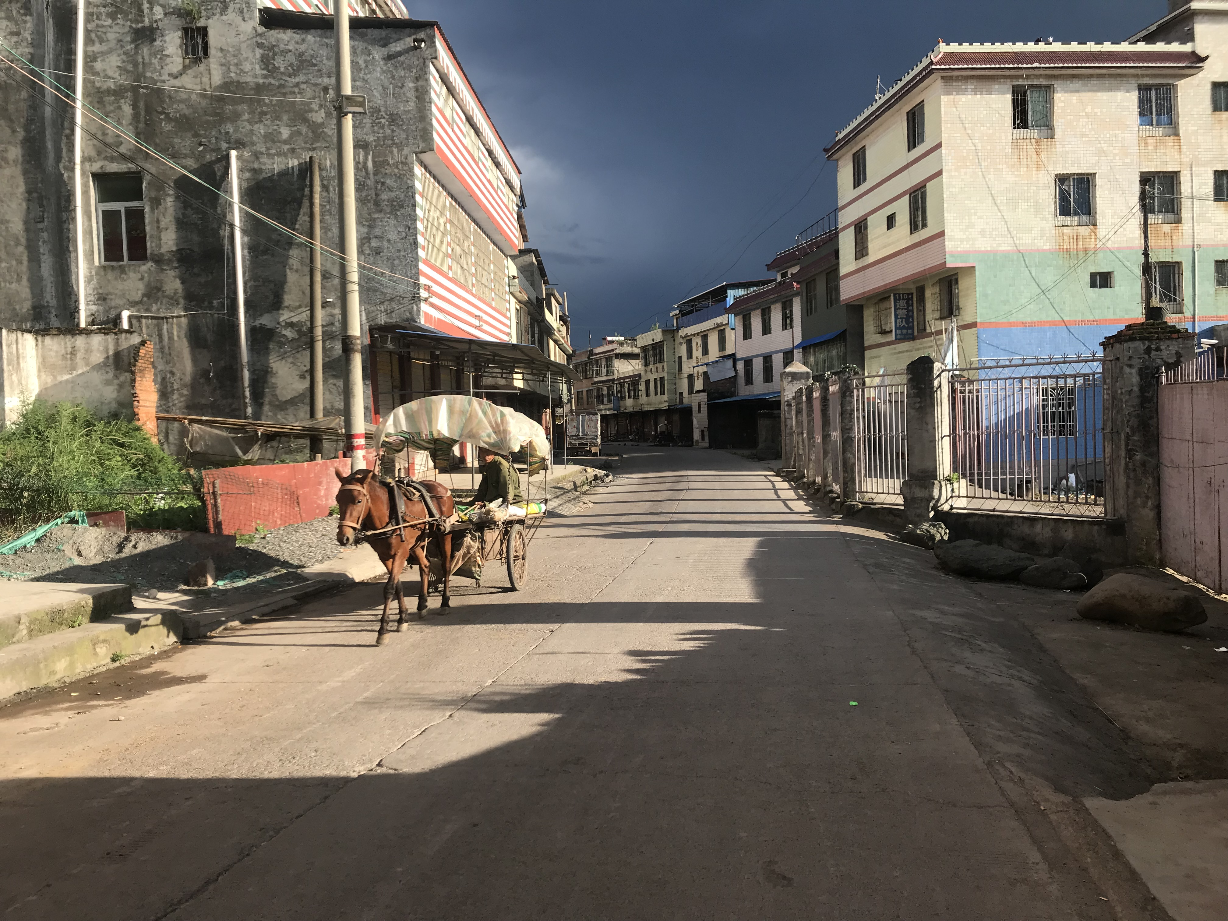 It still serves as the major means of transportation here